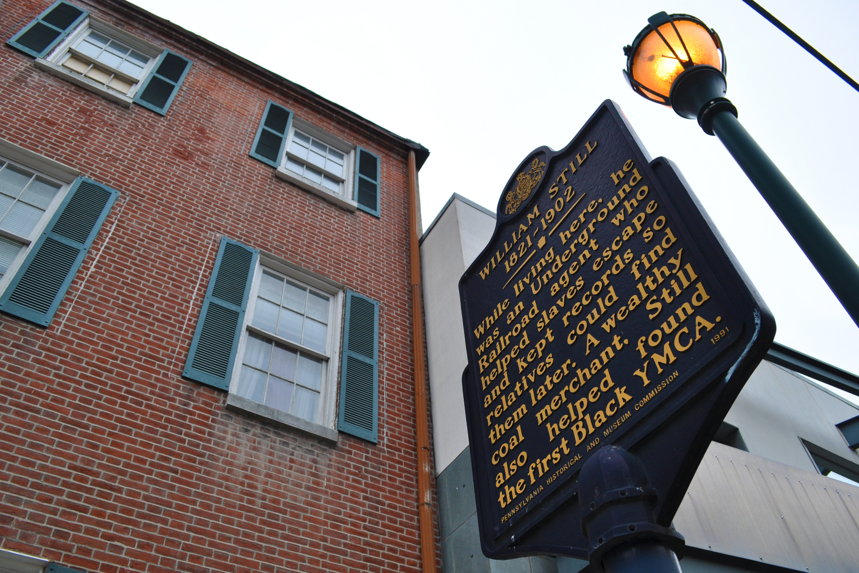 William Still (1821-1902). While living here, he was an Underground Railroad agent who helped slaves escape and kept records so relatives could find them later. A wealthy coal merchant, Still also helped found the first Black YMCA. (Historical Marker at 244 S. 12th St. Philadelphia PA - Pennsylvania Historical and Museum Commission 1991)